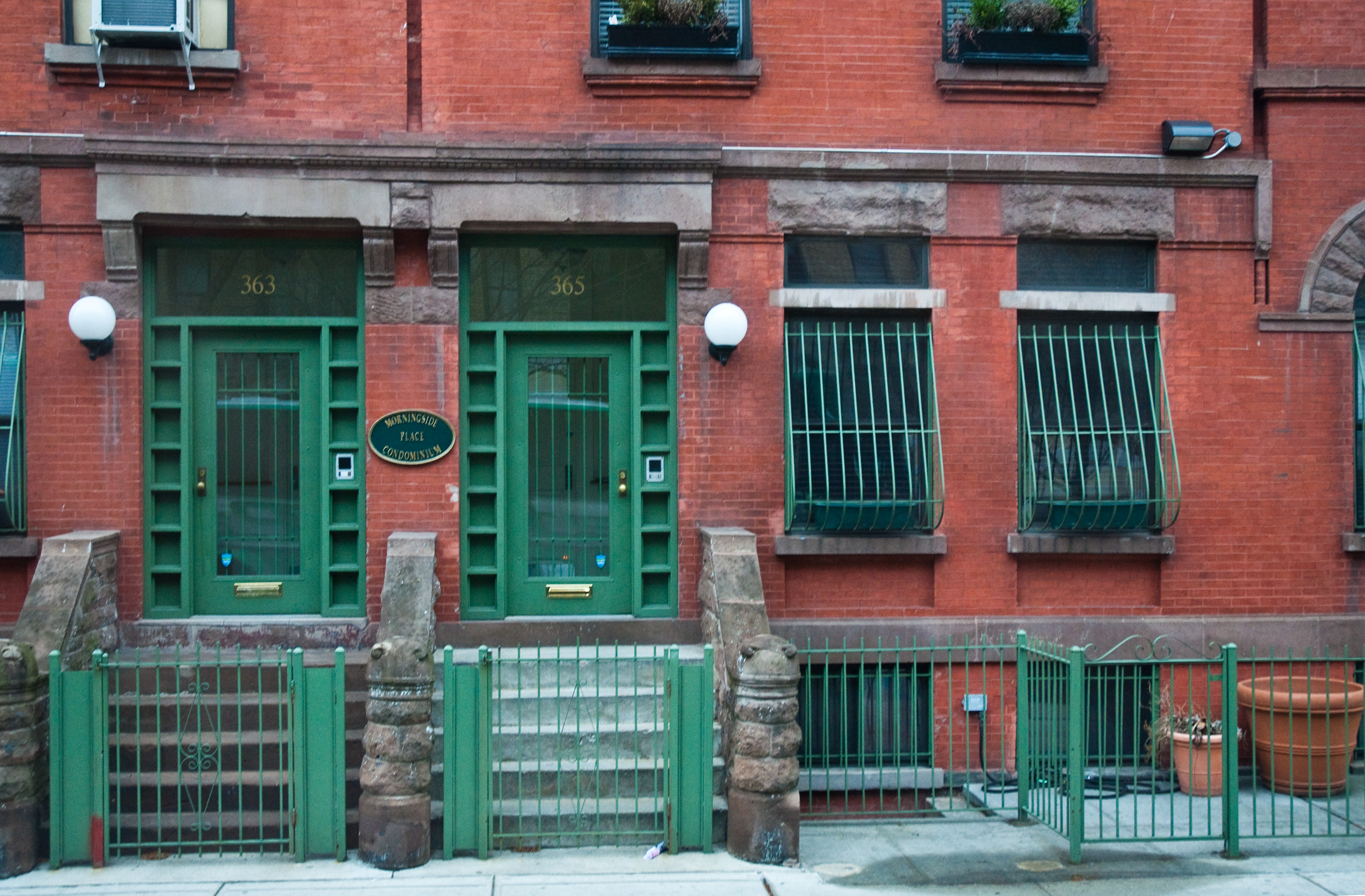 Harlem, Manhattan, New York, 7th. April 2011